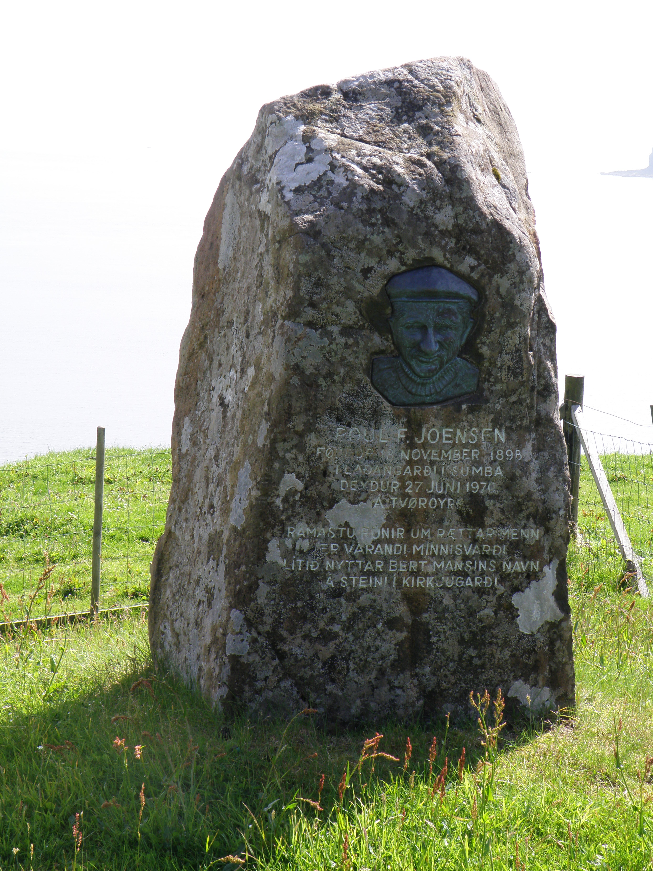 Poul F. Joensen was a Faroese poet and writer. He was born in Sumba, Faroe Islands on 18 November 1898 and died in Tvøroyri on 27 June 1970. He was married to Julia Mortensen from Froðba and they lived their until he died. This memorial stone was raised in 2007 nearby his house in Froðba. The stone is from the fields of Sumba, the village where he was born and raised. Poul F. published his first collection with poems in 1924, Gaman og álvara, which was the second collection of one Faroese poet who wrote in Faroese. The first collection of Faroese poems by one poet was Janus Djurhuus's Yrkingar from 1914. Poul F. wrote beautiful love poems but also poems which were critical to society. He often chocked people by writing things which no other writer dared, i. e. about religion.Føroyskt: Minnissteinur í Froðba til minnis um skaldið Poul F. Joensen. Minnisvarðin stendur tætt við húsini har hann búði tað mesta av sínum vaksna lívi. Steinurin er tikin úr haganum úr Sumba, hagani skaldið var føddur og vaksin upp. Steinurin varð reistur har í juni 2007. Tað var Lions Club Suðuroy, ið tók stig til at fáa steinin reistan. Poul F. er eitt av mætastu skaldum føroyinga. Hann yrkti sera fjølbroytt, var onkuntíð samfelagsrevsari og onkuntíð skrivaði hann vakrar kærleiksyrkingar. Hanus G. Johansen, sangari og tónaskald, hevur gjørt lag til fleiri av yrkingunum hjá Poul F. og eru sangirnir sera væl umtóktur. Yrkingarnar hava harvið fingið nýtt lív. Poul F. útgav sítt fyrsta yrkingasavn í 1924, tað nevndist Gaman og álvara, og var tað annað yrkingasavnið skrivað á føroyskum av einum føroyskum skaldi. Bert Janus Djurhuus hevði áður givið út eitt yrkingasavn á føroyskum, tað var Yrkingar í 1914.